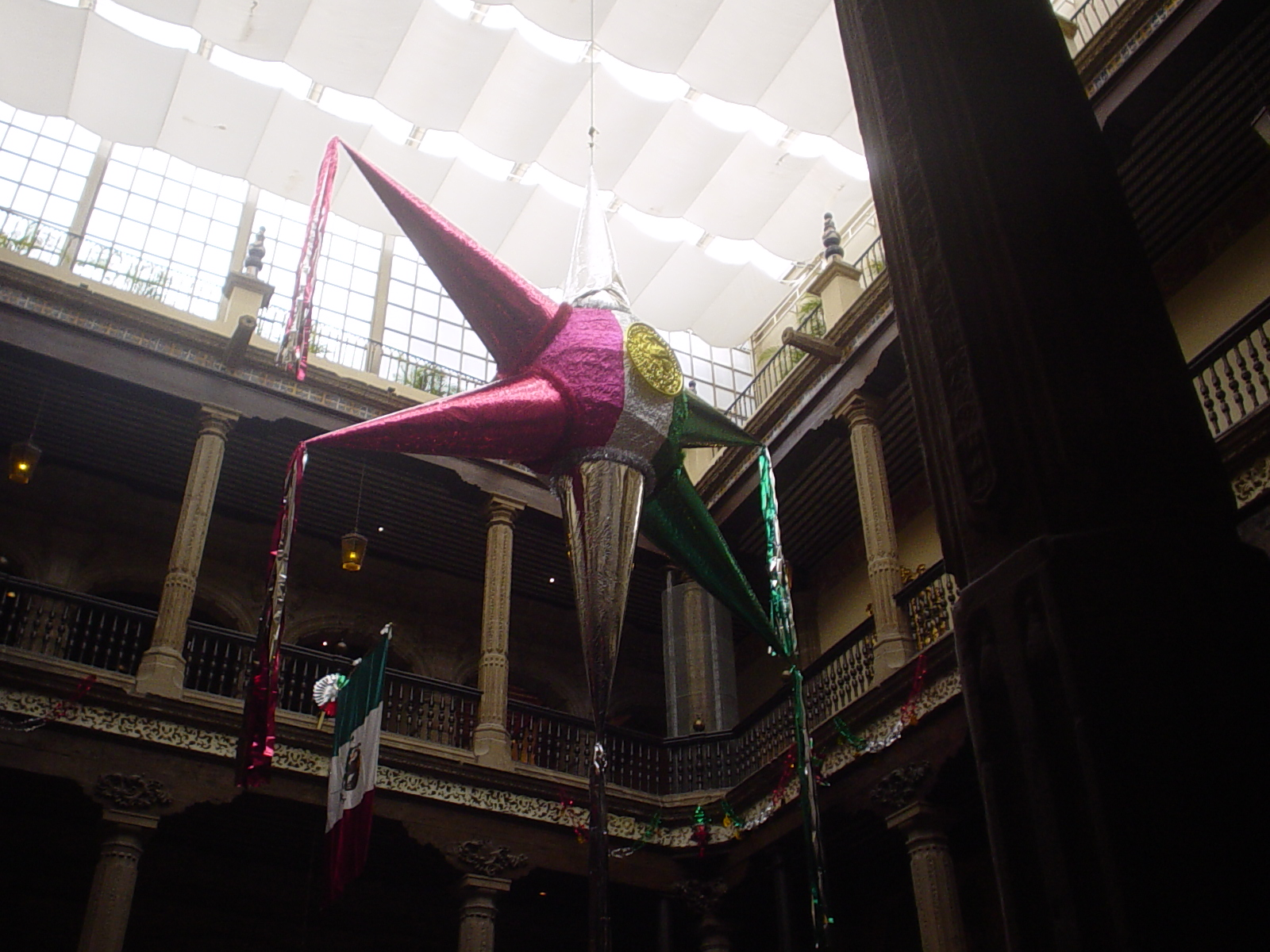 Image of a traditional Mexican Piñata at the center of Mexico City